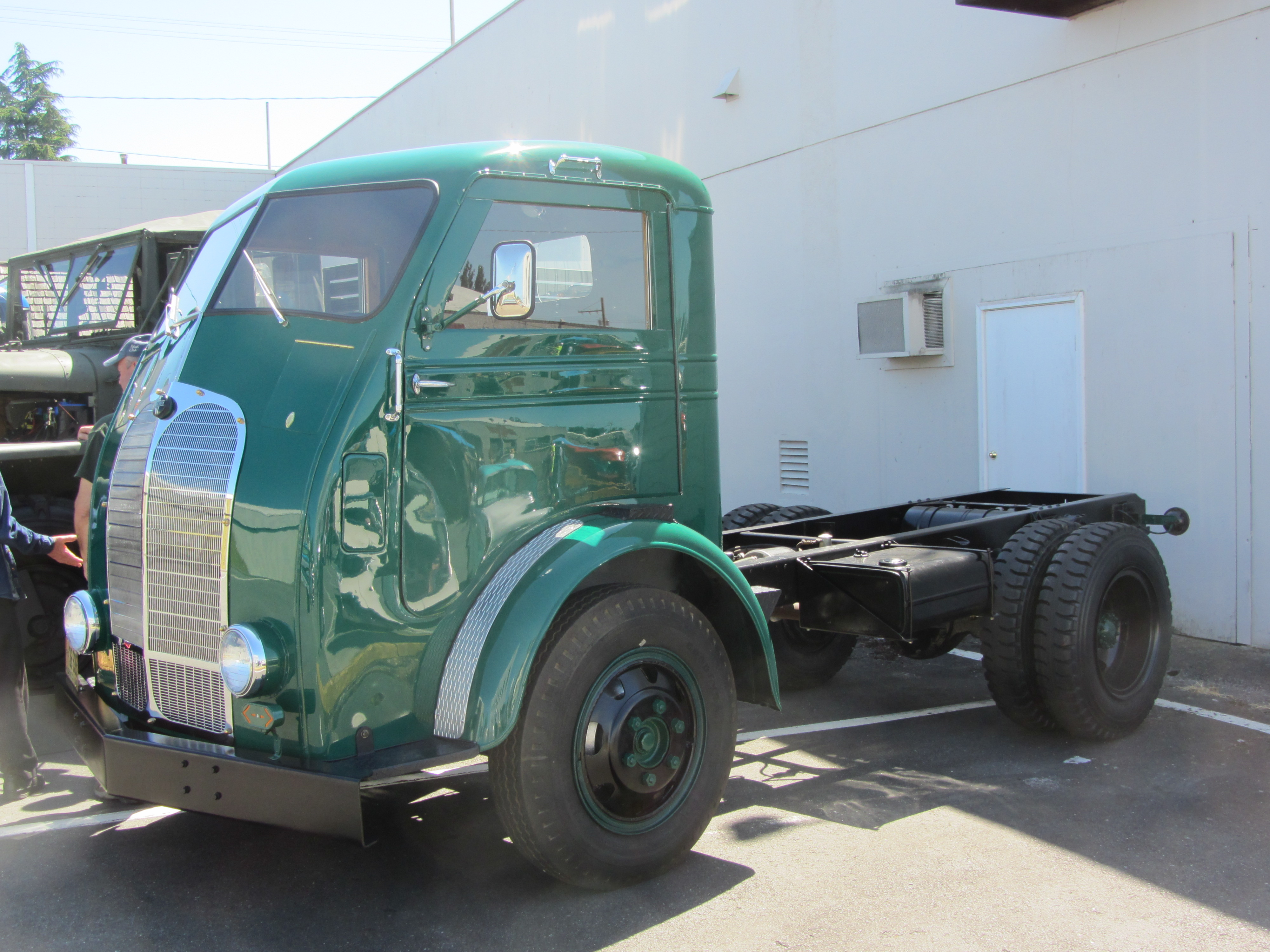 I have never seen one like this before, but I guess that Sedro-Woolley would be the place for one to be on show. The testing facility for PACCAR is nearby. Might be in the company collection.